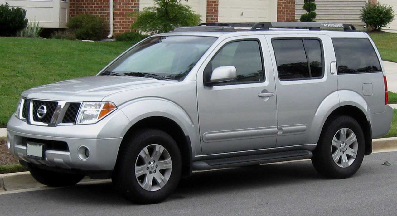 2005-2007 Nissan Pathfinder photographed in Fort Washington, Maryland, USA.